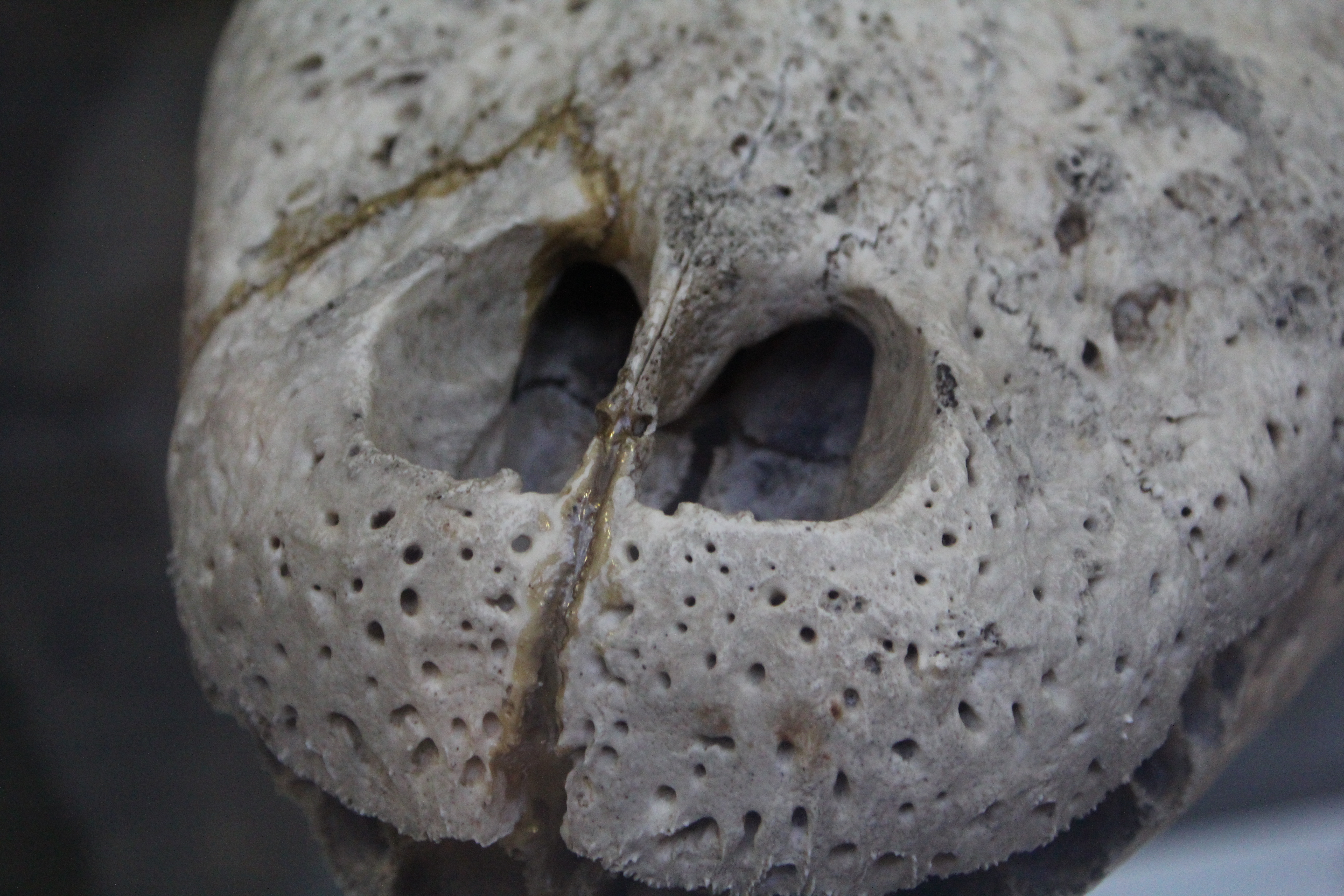 American alligator (Alligator mississippiensis) skull nostrils at the Royal Veterinary College anatomy museum